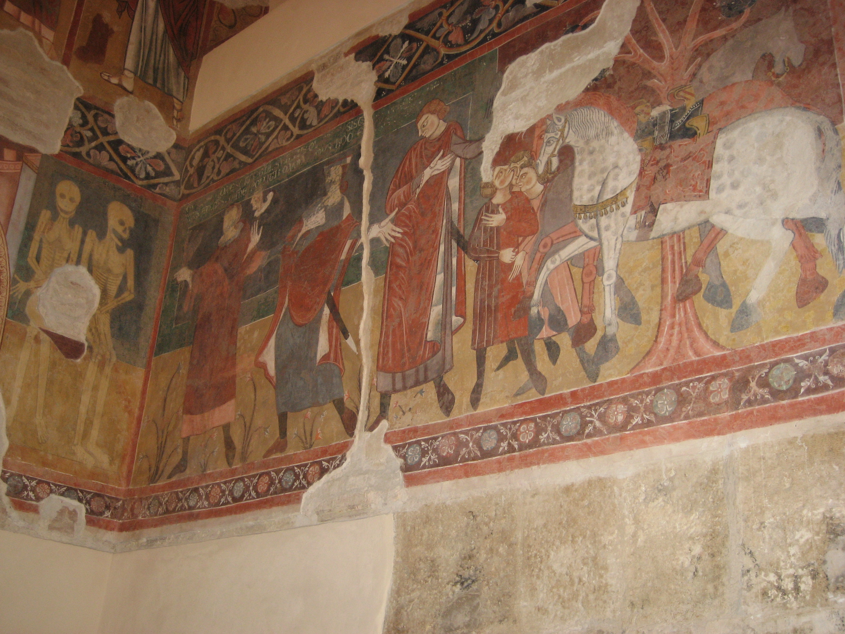 Unusual fresco in the left aisle of the Cathedral, that is inspired to episodes of the French literature: meet him of the 3 alive and of the 3 Corpses. And' a very diffused theme in Italy, above all beginning from the '500, but in Abruzzo the only example is that of Atri.